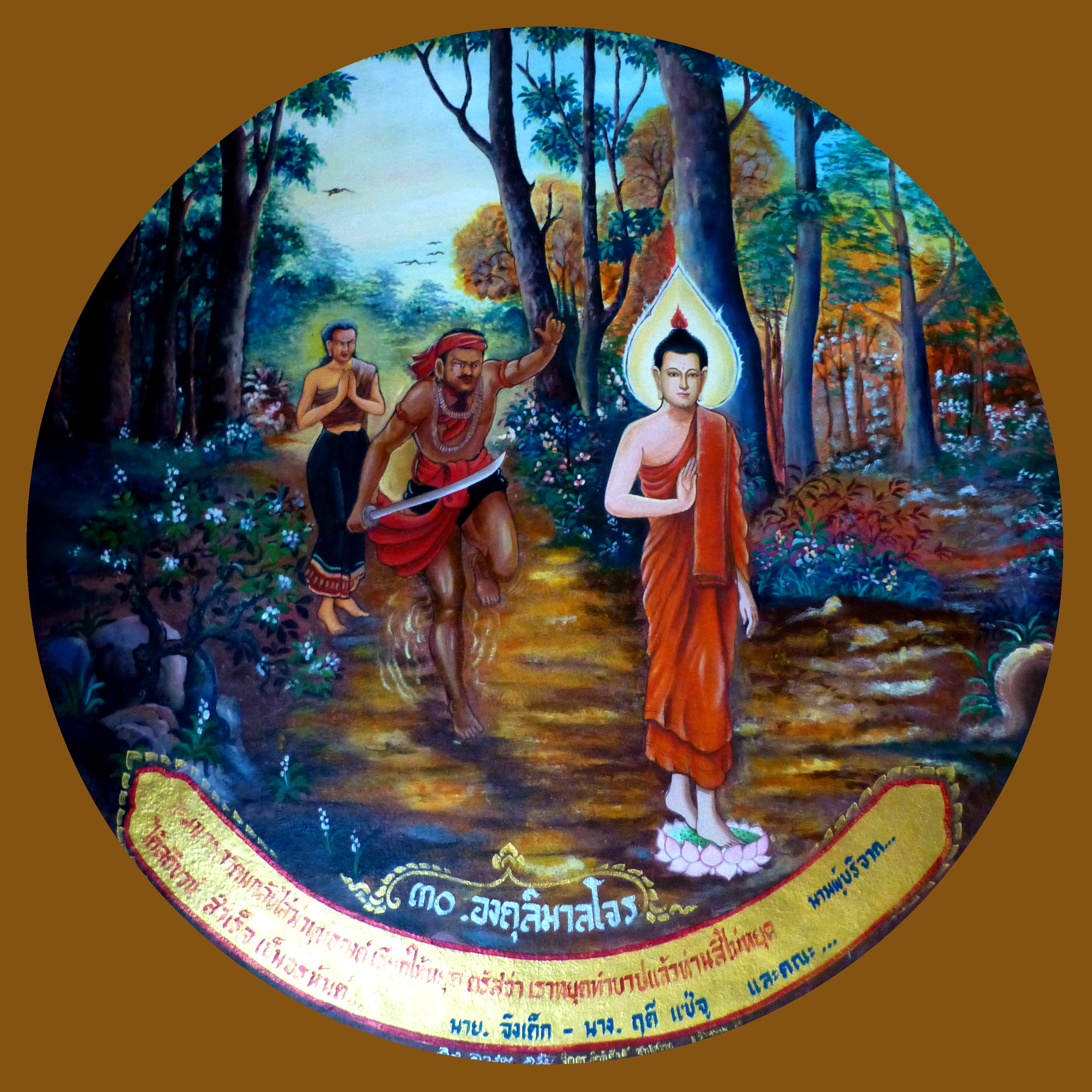 54 Angulimala cannot Catch up with Buddha who ordains him and he becomes an Arahant, Chedi Traiphop Traimongkhon Temple, Hatyai